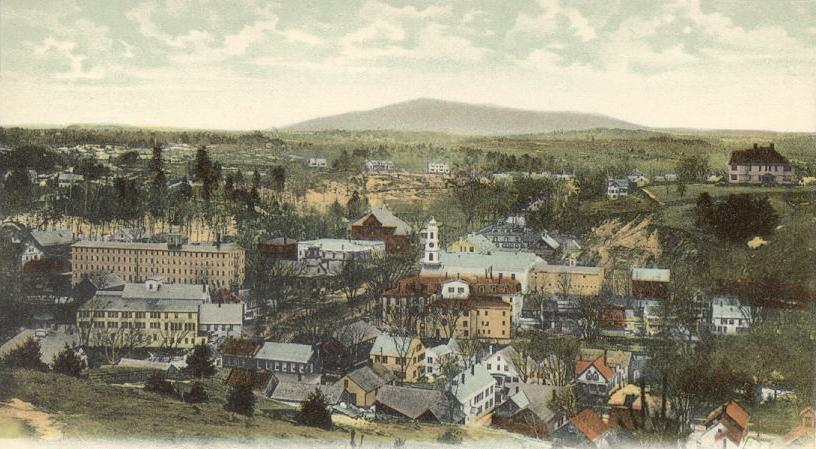 Bird's-eye view of Peterborough, New Hampshire. This shows the view from East Hill, with Mount Monadnock in the distance.